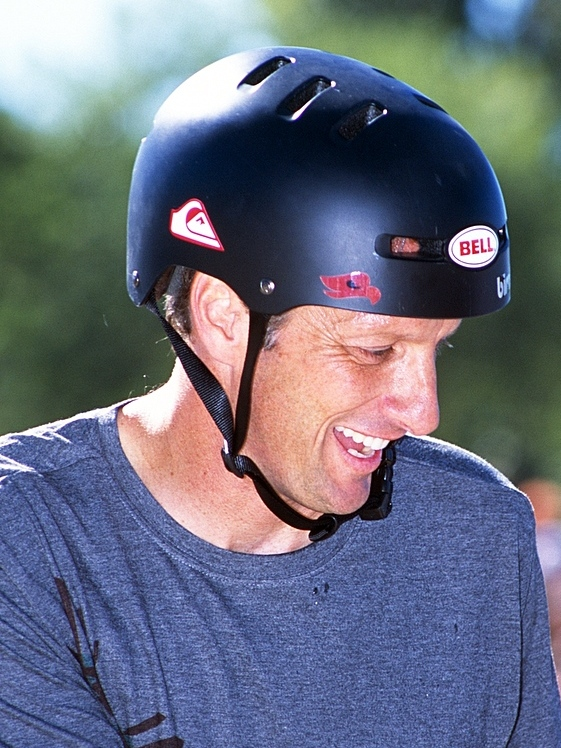 Tony Hawk at the opening of the Mobash skate park in Missoula, Montana